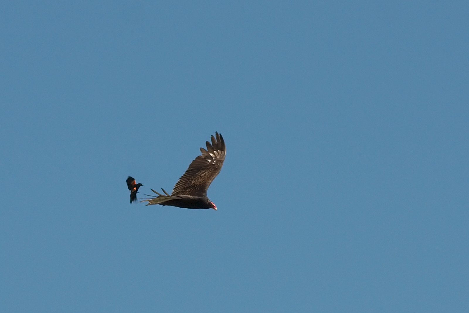 A turkey vulture (Cathartes aura) being chased by a red-winged blackbird (Agelaius phoeniceus), in Ozaukee County, Wisconsin